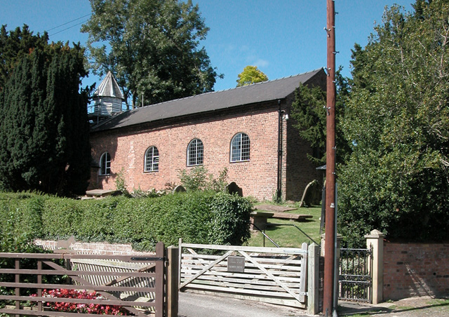 Photograph